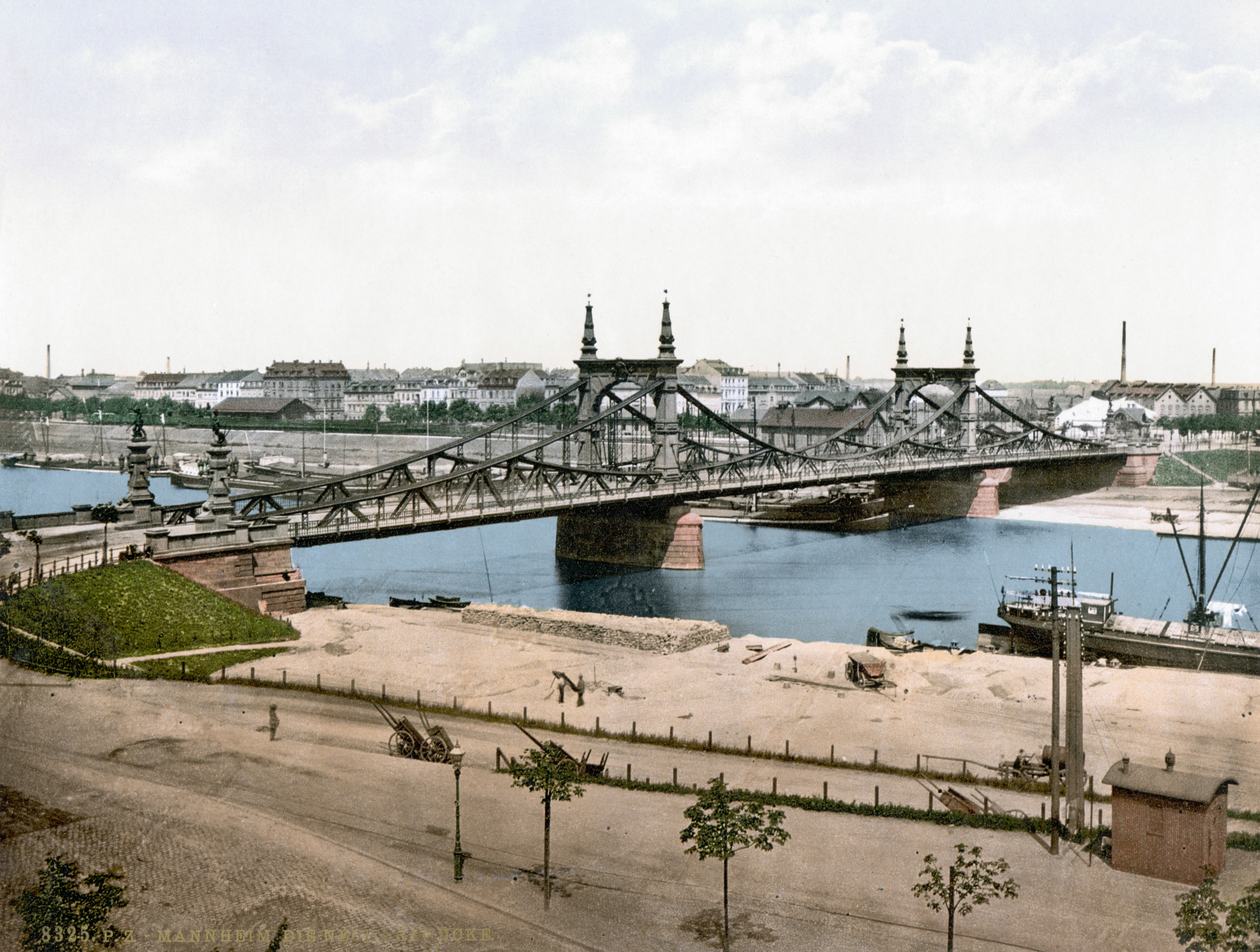 The Neckar Bridge, Mannheim, Baden, Germany